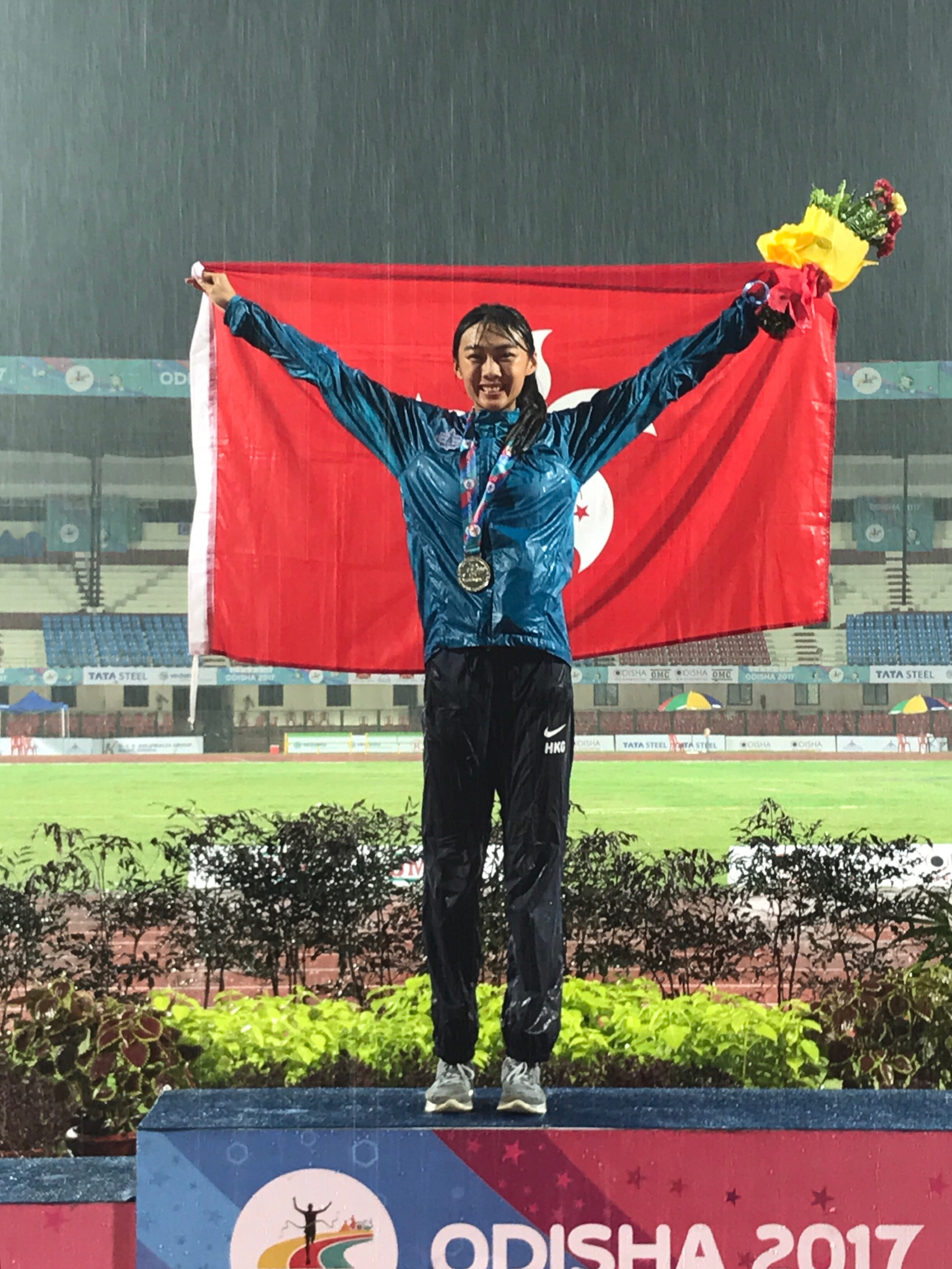 Yeung at the 2017 Asian Championships won a sliver medal